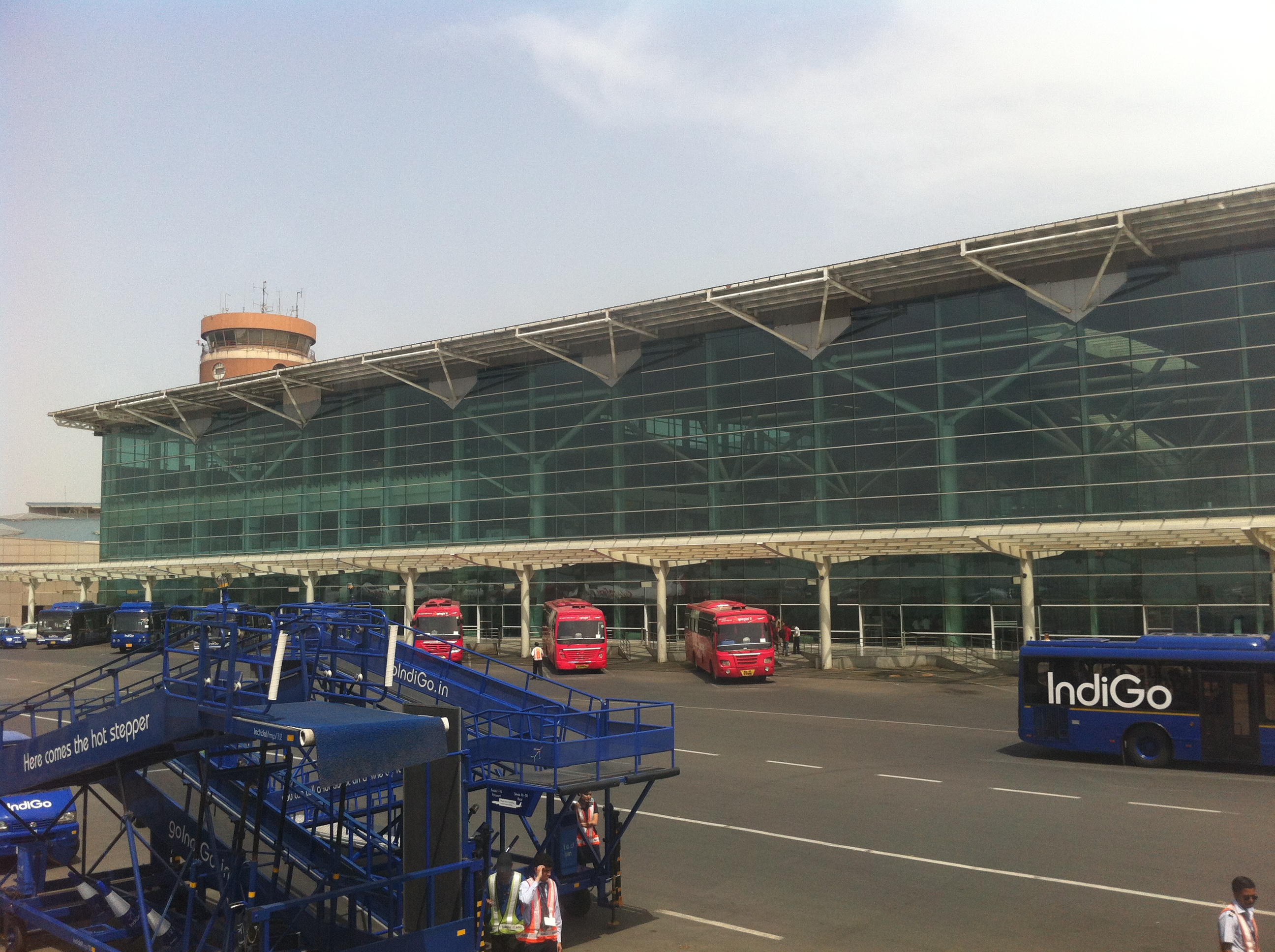 This is the IGI Airport in New Delhi. This picture is of Terminal 1D